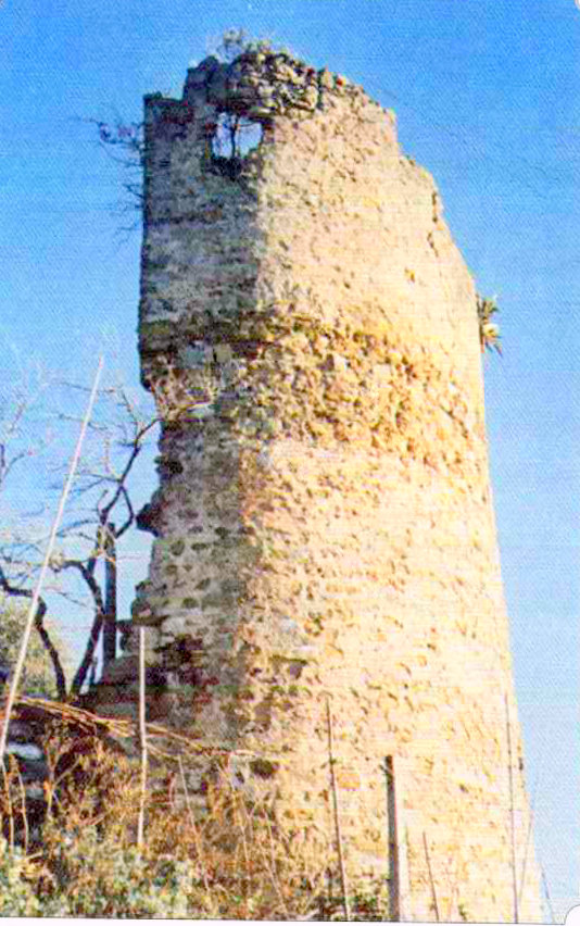 Moneta : particolare della vecchia cerchia muraria, torrione semicircolare